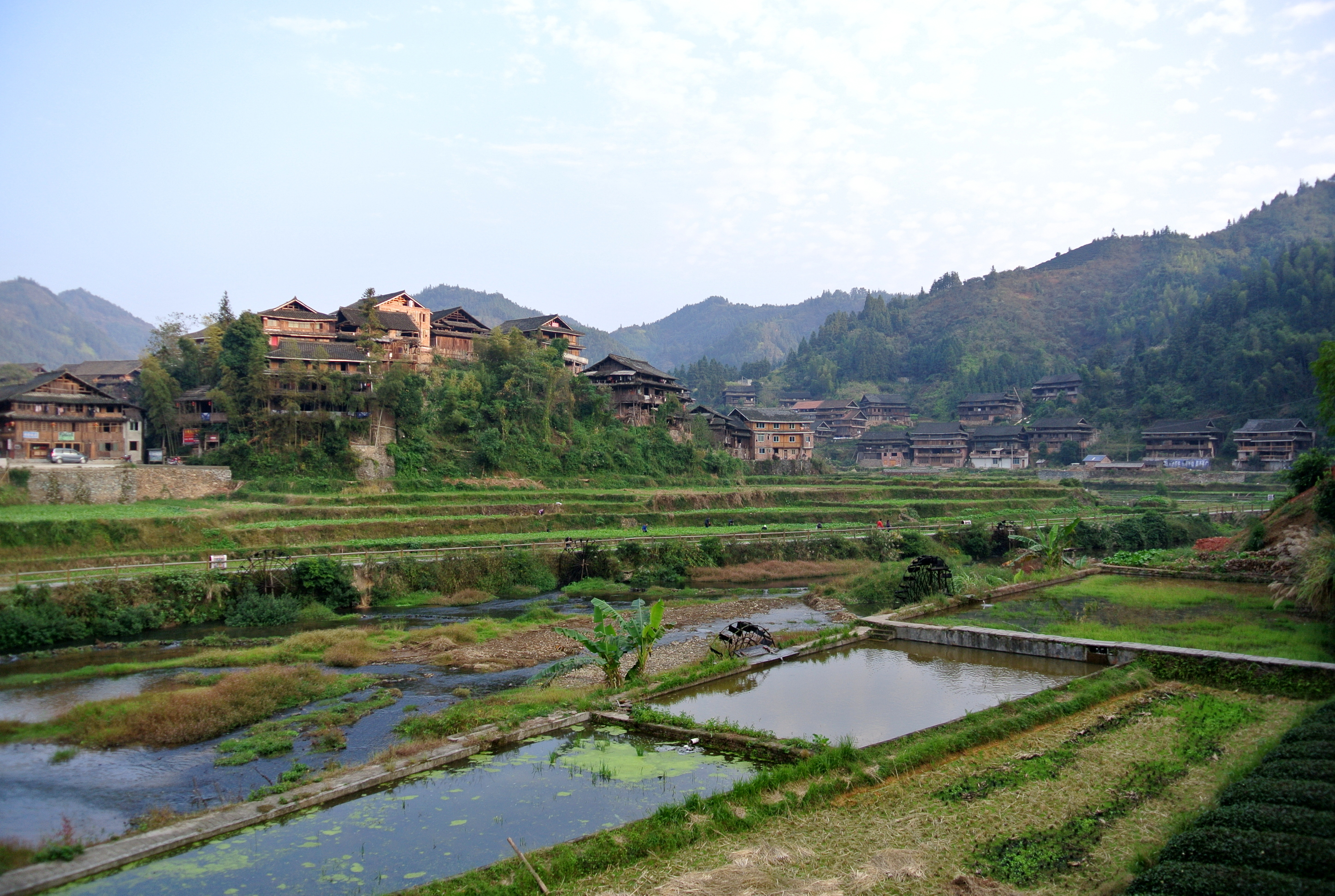 Chengyang, Guangxi, China